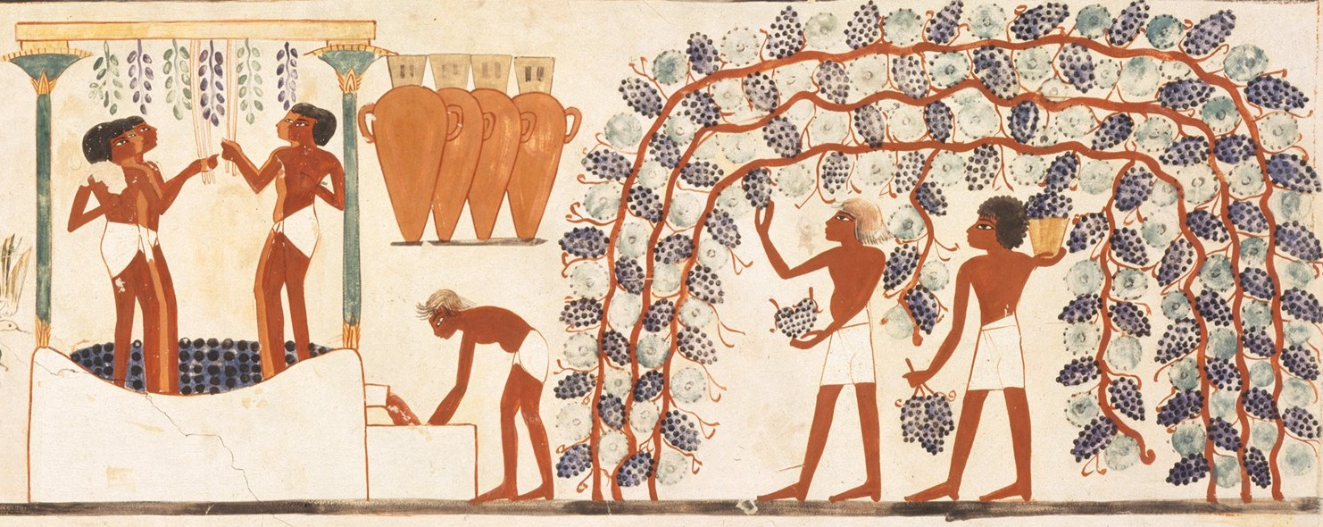 Norman de Garis Davies, Nakht and Family Fishing and Fowling, Tomb of Nakht, Graphic Expedition, Metropolitan Museum of Art, 1915